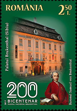 THE NATIONAL BRUKENTHAL MUSEUM, 200 YEAR ANNIVERSARY